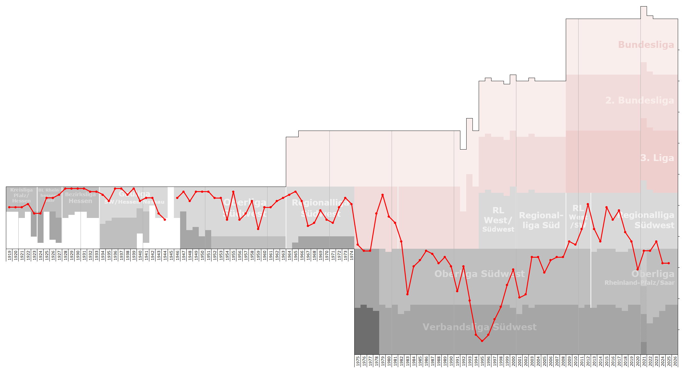 Chart of end-season table positions of Wormatia Worms in the football league system of Germany. Data source: RSSSF, wikipedia, f-archiv.de, fussball.de